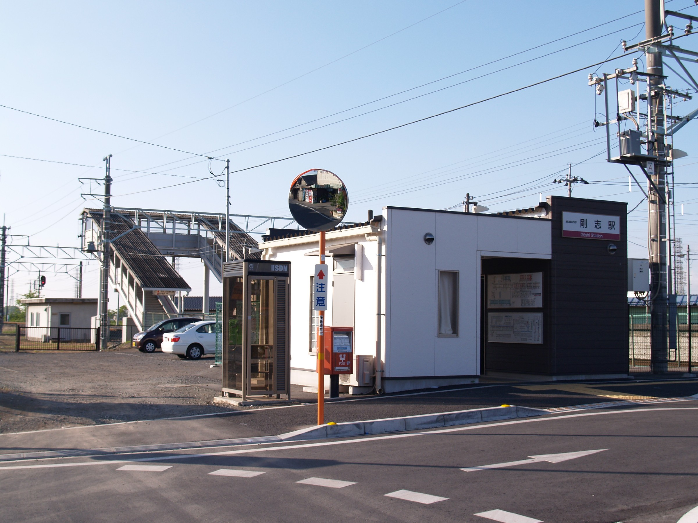 Goshi Station